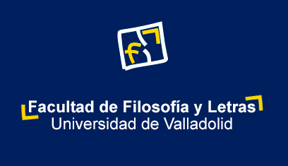 Logo facultad